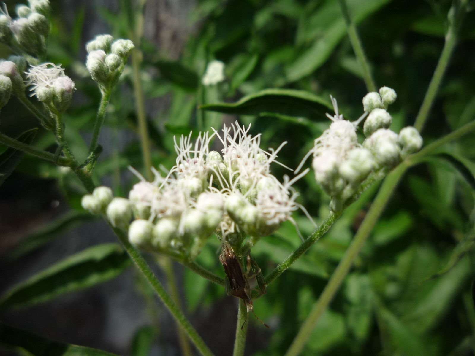 Flowers just starting to open, of Eupatorium serotinum in cultivation